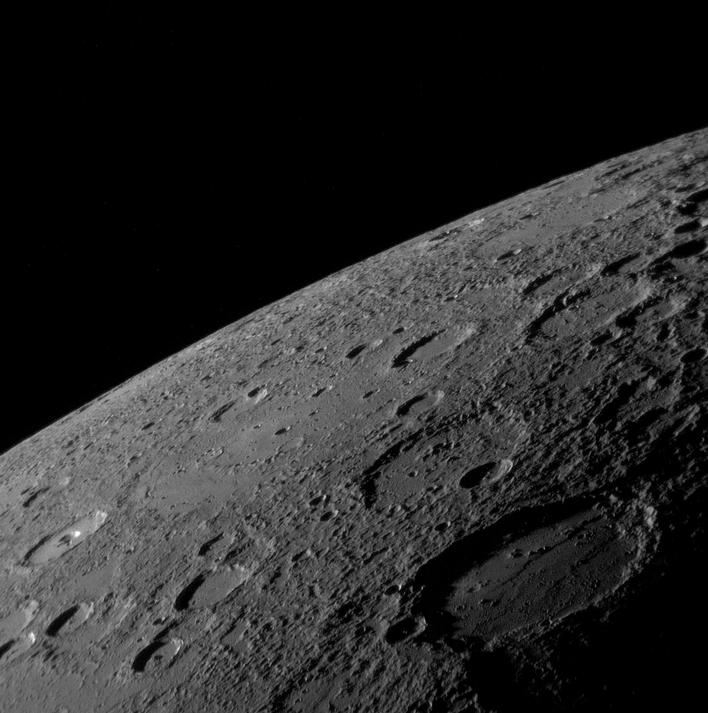 Sholem Aleichem crater on Mercury, in lower right foreground. To Ngoc Van, Botticelli, and Al-Akhtal craters are toward the horizon.